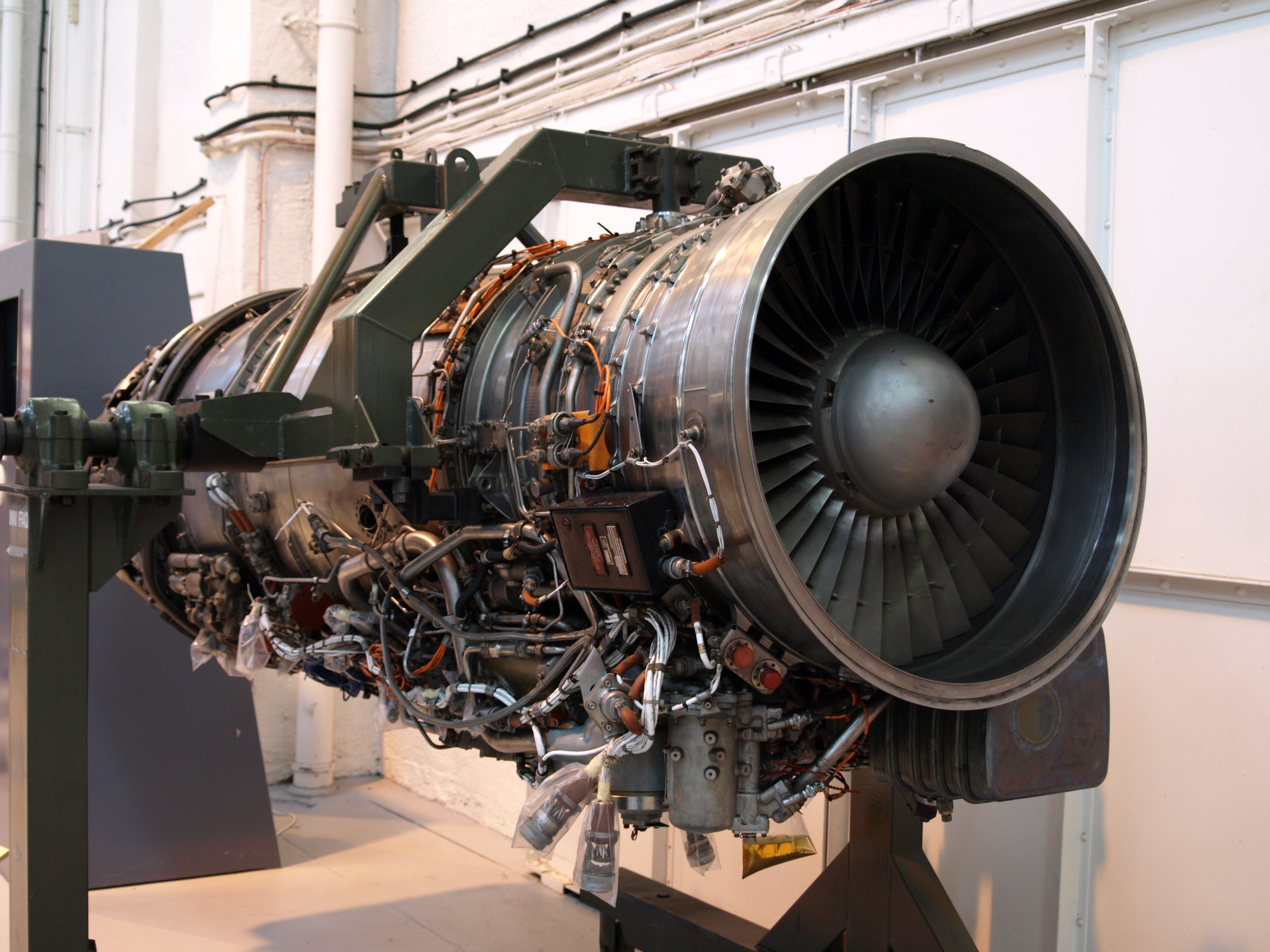 Turbo-union RB.199 turbofan engine on display at the Royal Air Force Museum Cosford